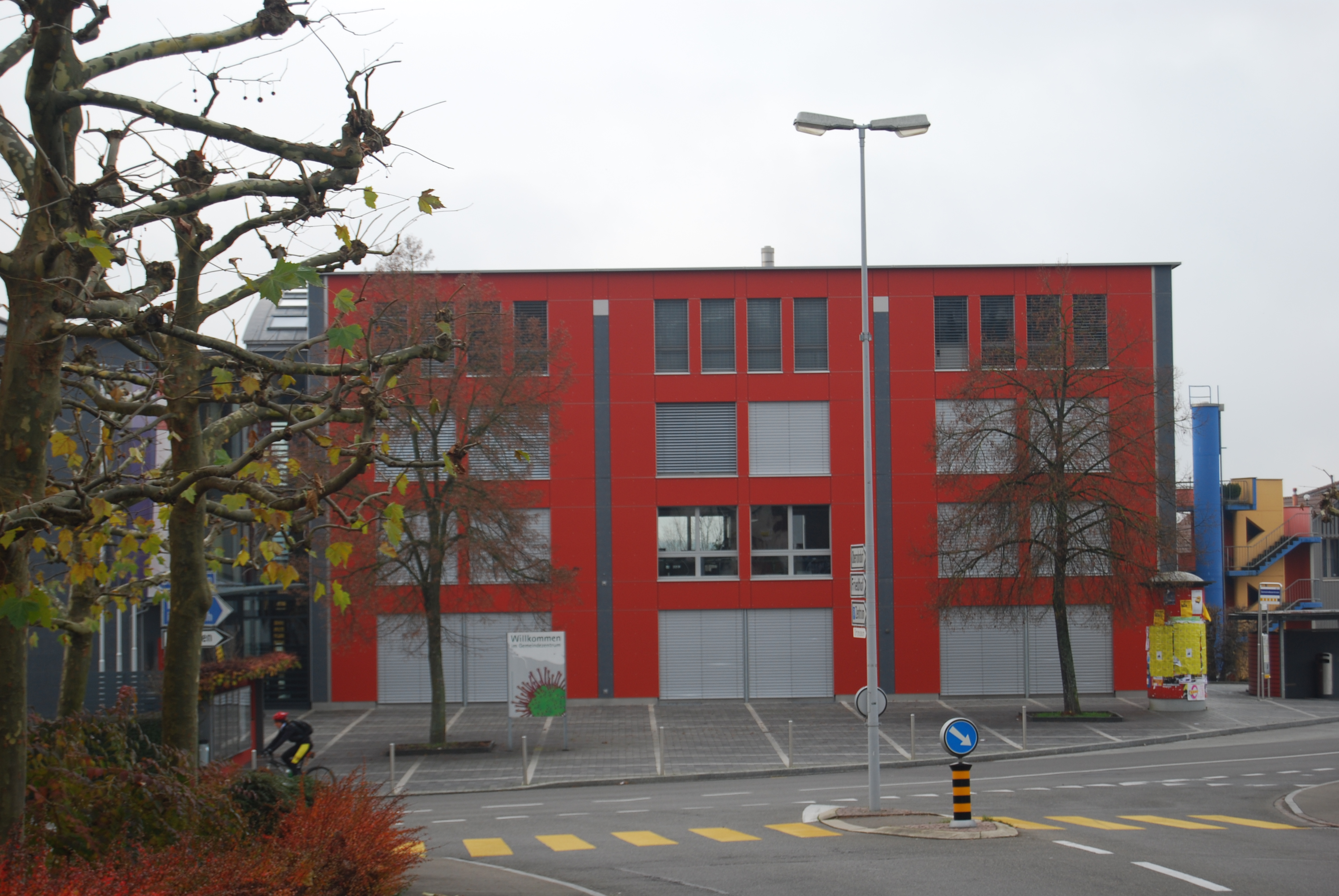 Municipality of Niederrohrdorf, canton of Aargau, SwitzerlandEsperanto: Komunuma domo de Niederrohrdorf, Kantono Argovio, Svislando